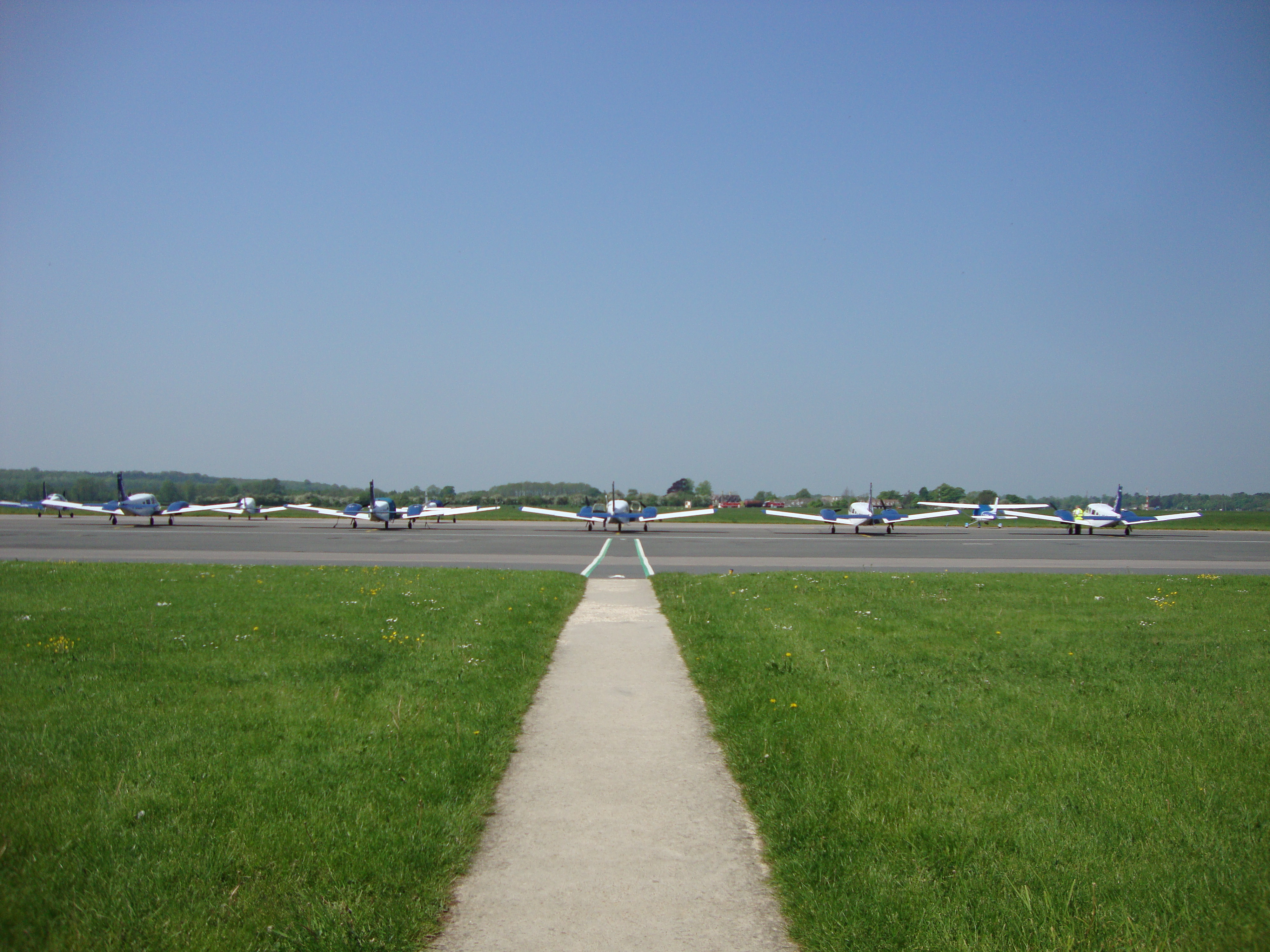 The main apron of London Oxford Airport, Oxfordshire, UK, which is used by Oxford Aviation Academy.